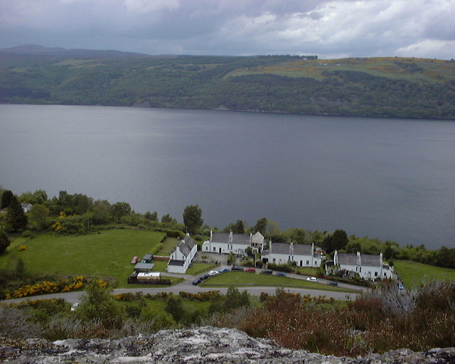 Foresters Houses at Hill Head, Inverfarigaig with Loch Ness behind